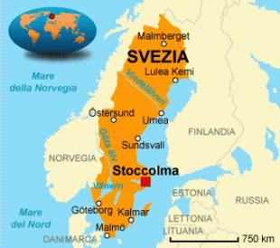 Svezia, Sweden